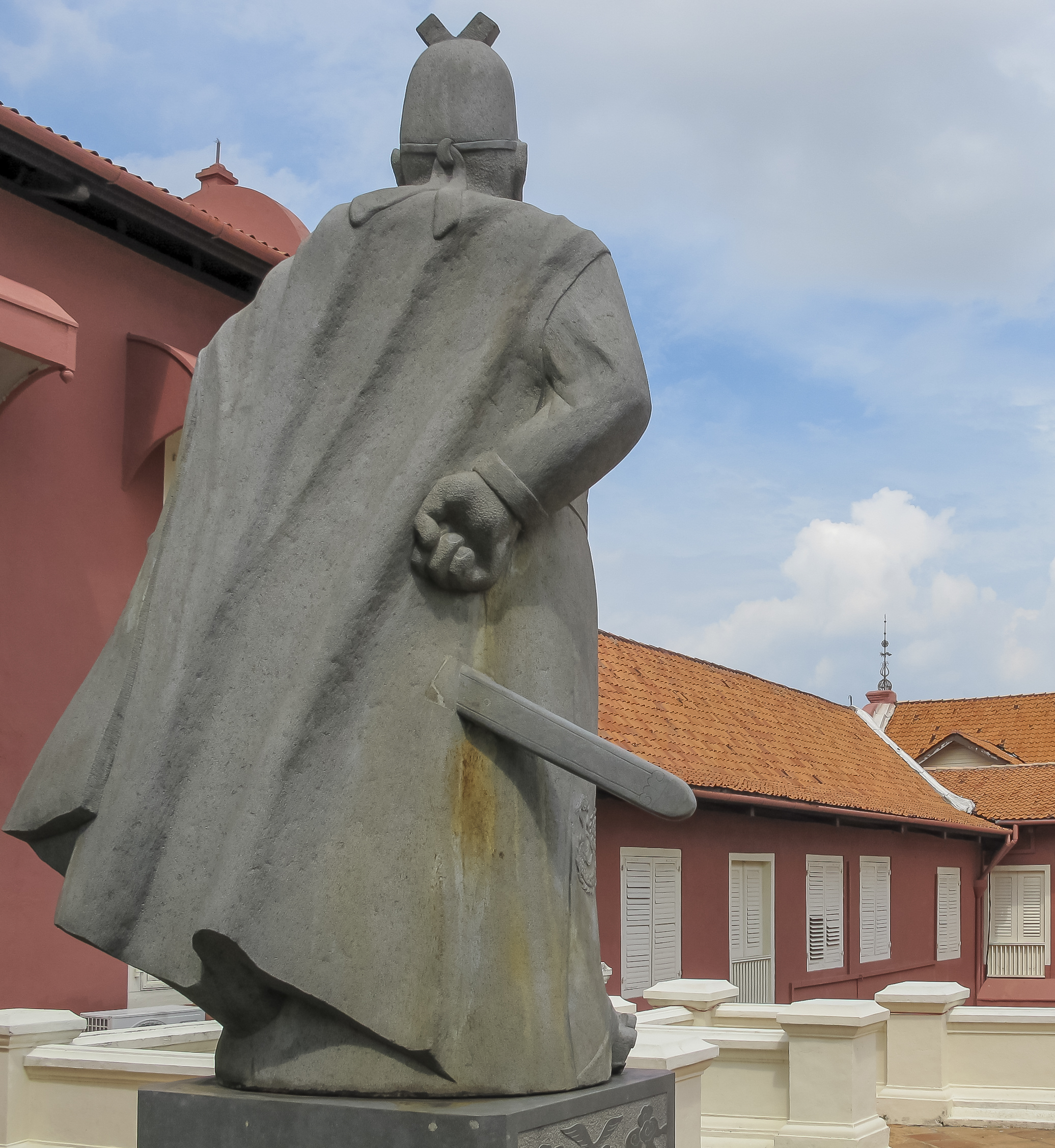 Malacca City, Malaysia: Monument of Admiral Zheng He (backside)